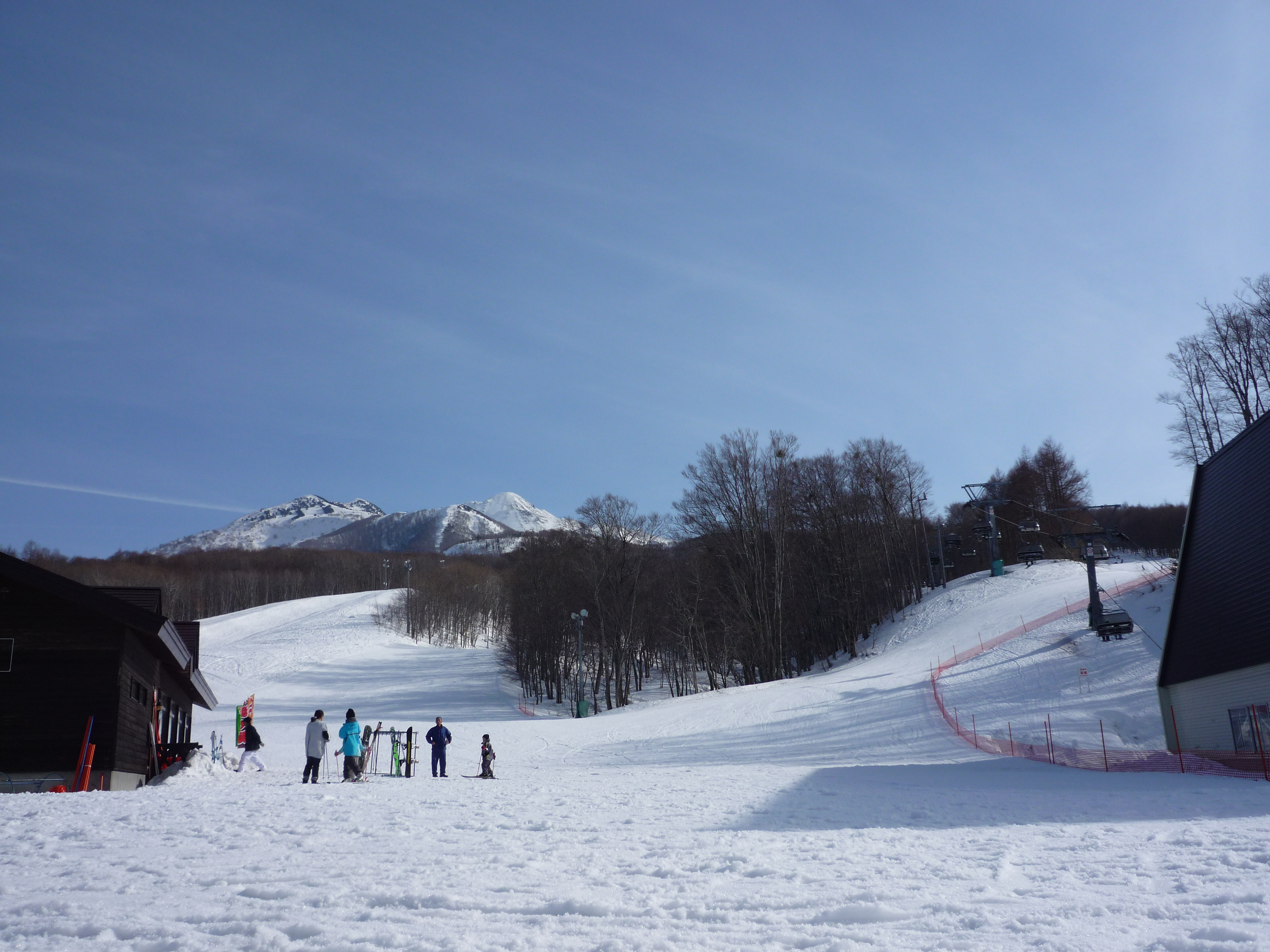 Naqua Shirakami Ski Resort and Mt. Iwaki in Ajigasawa, Aomori, Japan.